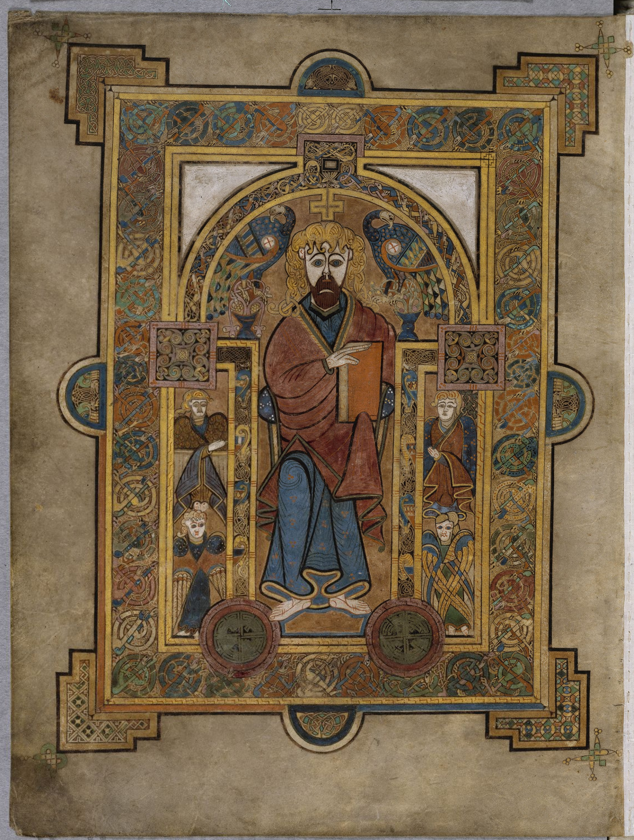 Info